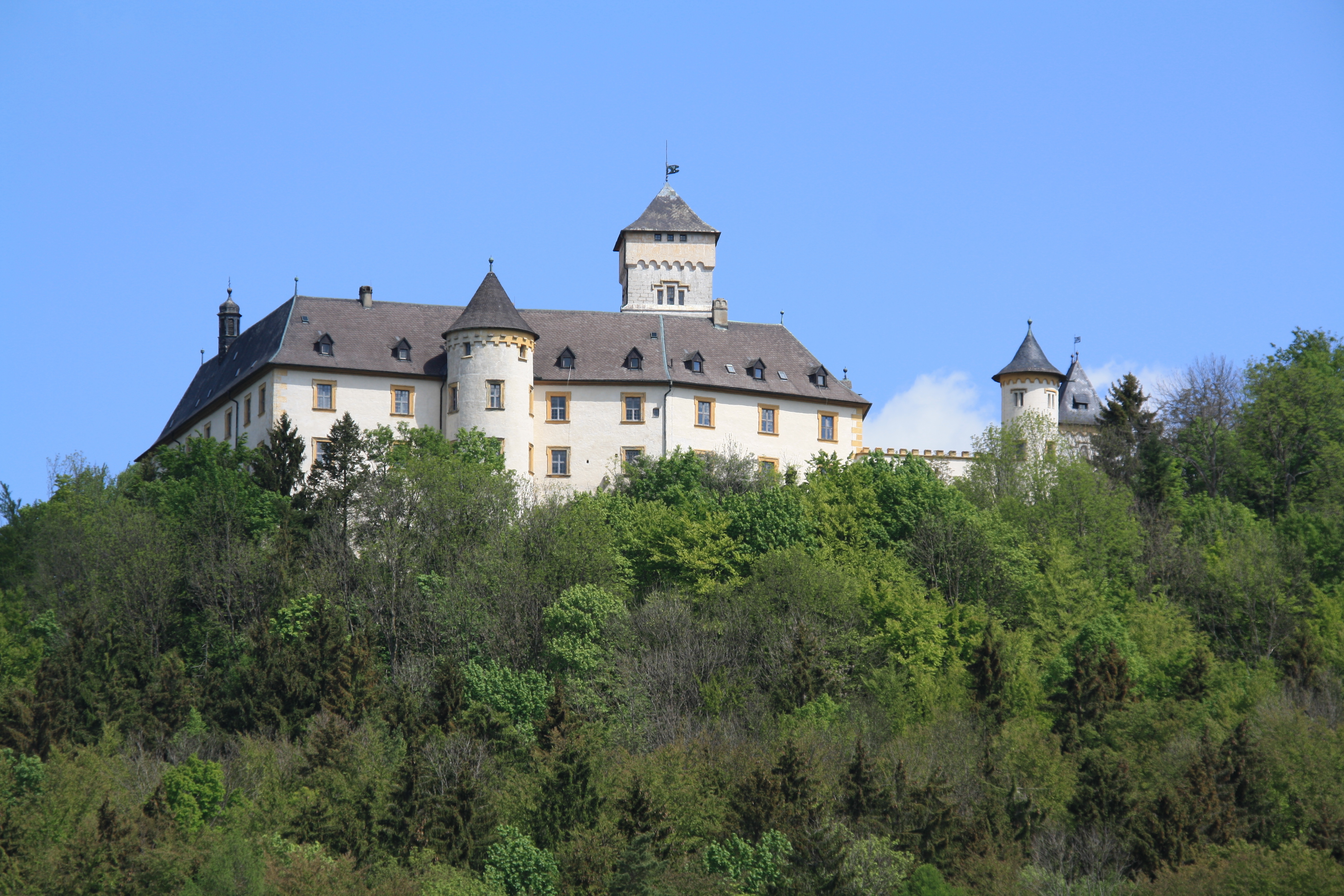 duitsland - bayern - oberfranken - fränkische schweiz - schloß greifenstein